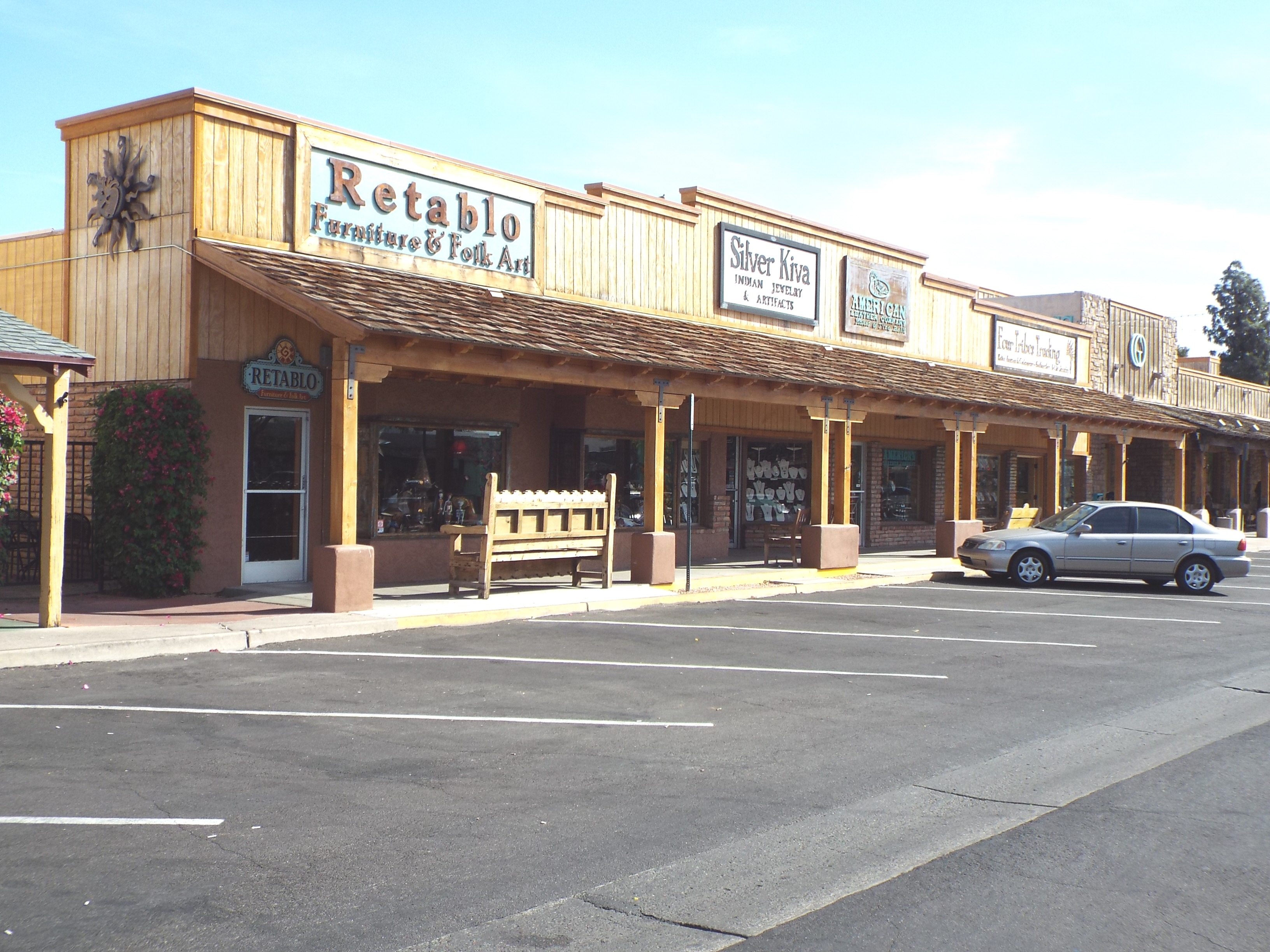 Scene of E. 1st Avenue in Old Town Scottsdale in Scottsdale, Arizona.